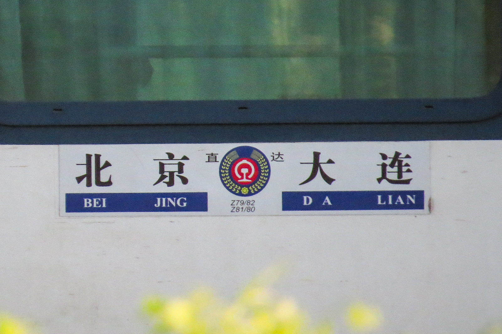 Often seen at Huangtudian.